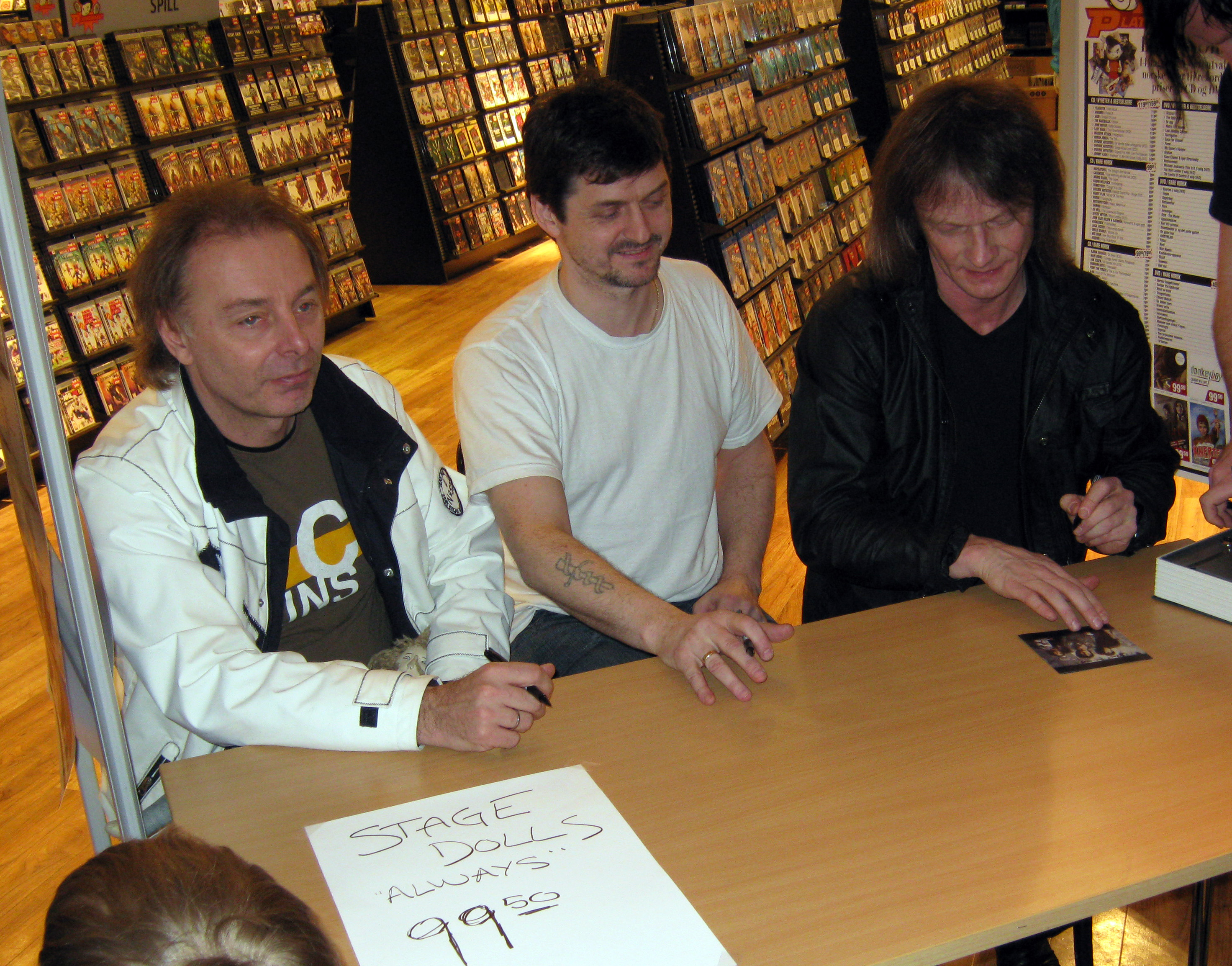 Stage Dolls signing their album Always at Arena Amfi in Arendal Norway